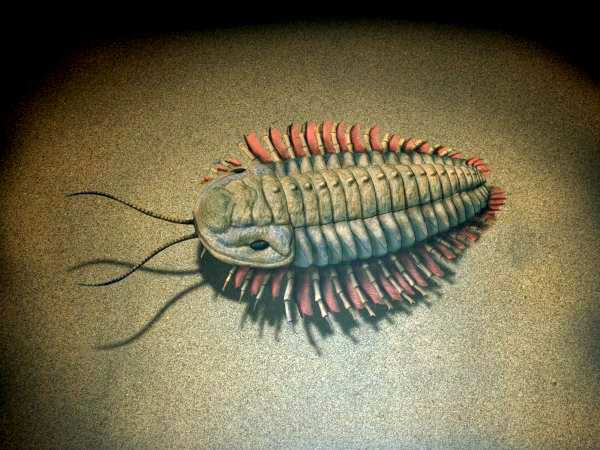 Triarthrus eatoni